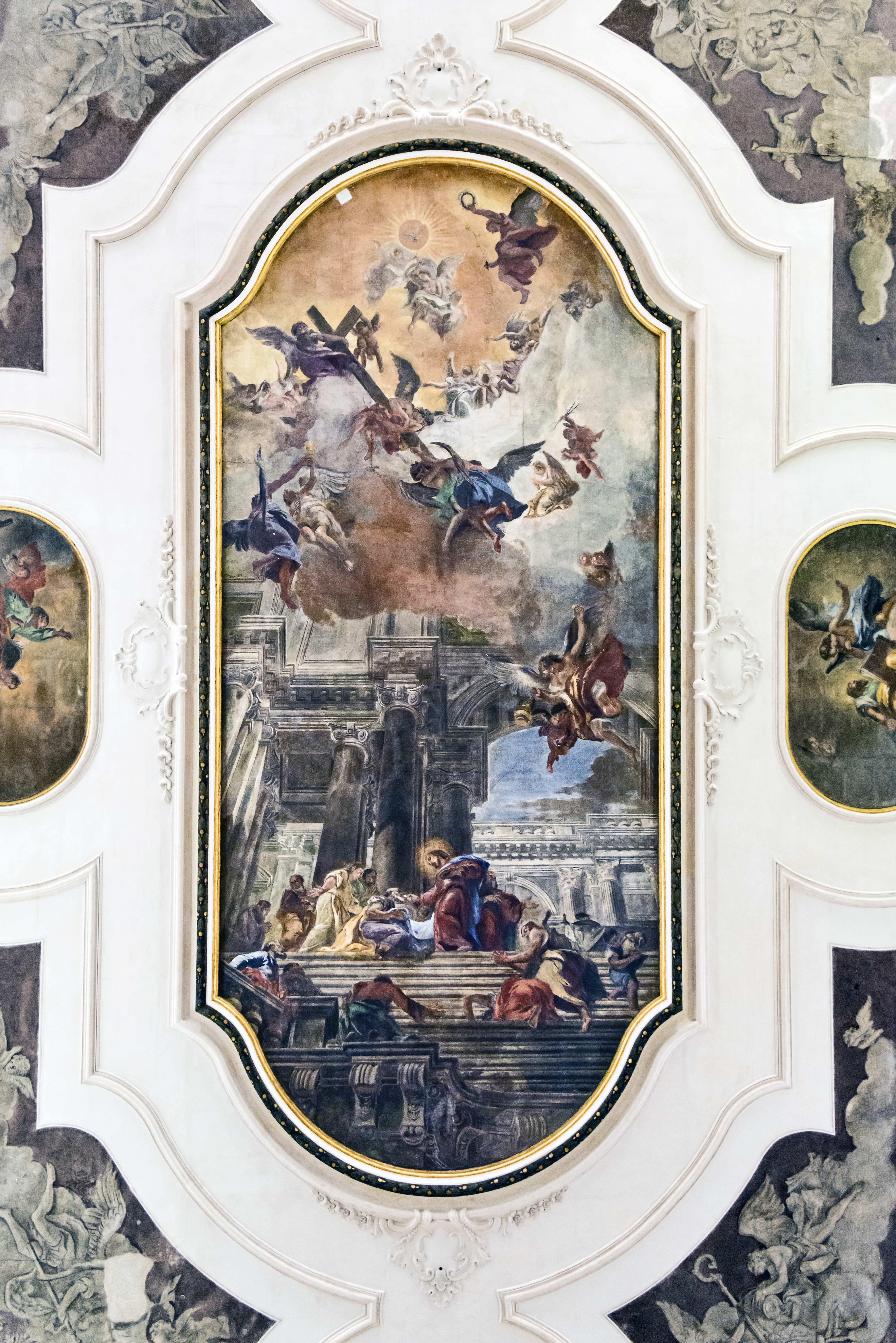 Church of Santi Apostoli in Venice From Fabio Canal Comunione degli Apostoli e Esaltazione dell'Eucarestia